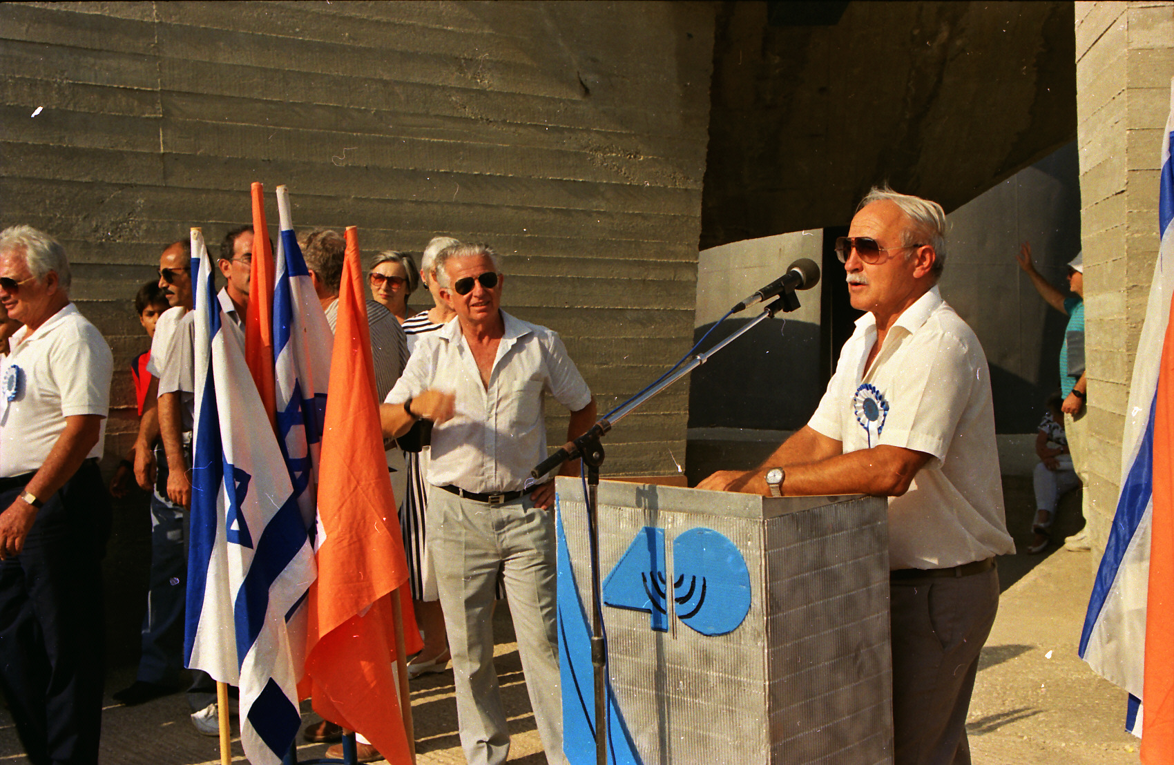 Events in Israel